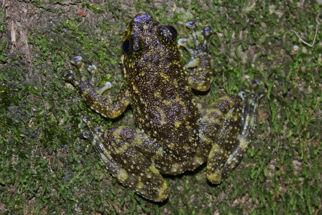 Taken in Pat Sin Leng Country Park. We've been carefully measuring suctions disk to finger ratios of all the Amolops that we find, so if this article is correct; www0.hku.hk/ecology/porcupine/por32/32-vert-3-frog.htm then this would be a new recording outside of Lantau for this species in the Hong Kong territory.